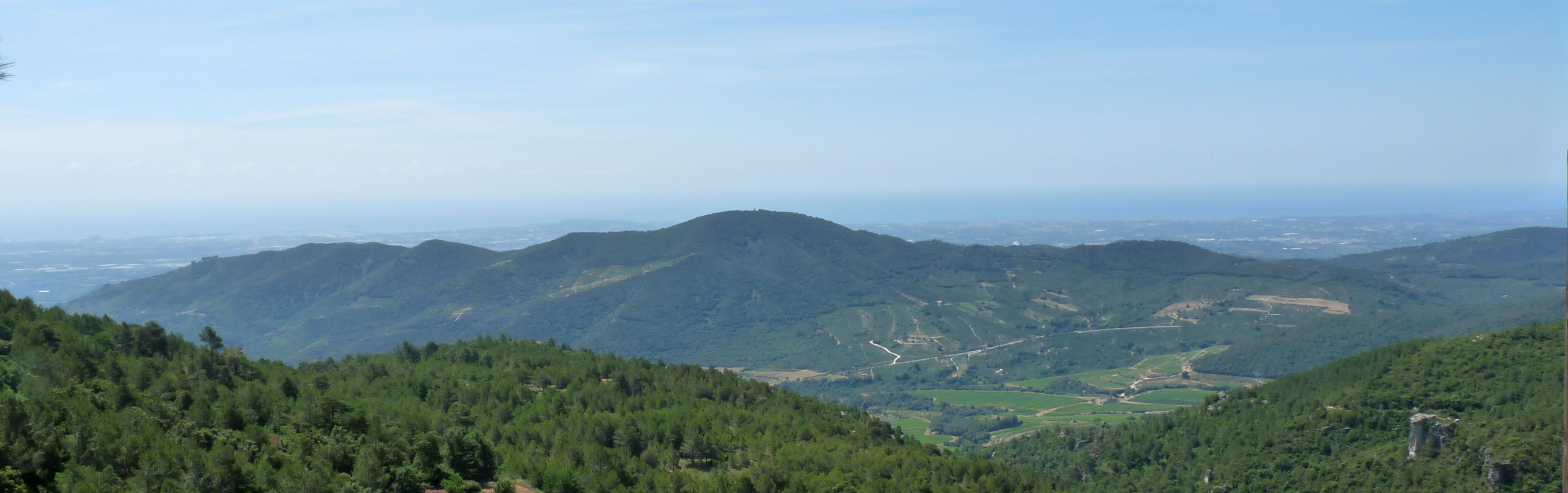 The Puig d'en Cama seen from the north, near l'Albiol. Between there are the ravine of the Trilles (on the right) and the stream of la Selva del Camp (on the left). Above the ridge, on the left side, there are some trees around the hermitage of Sant Pere de la Selva. Behind the Puig d'en Cama, the Baix Camp on the right and the Tarragonès on the left.